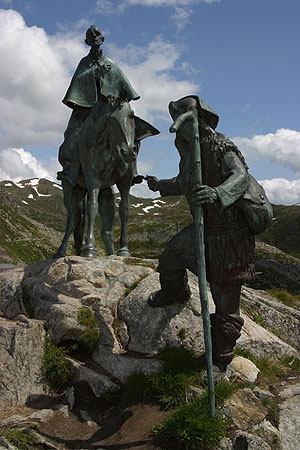 General Alexander Suvorov equestrian statute at Gotthard pass, by Dmitri Tugarinov